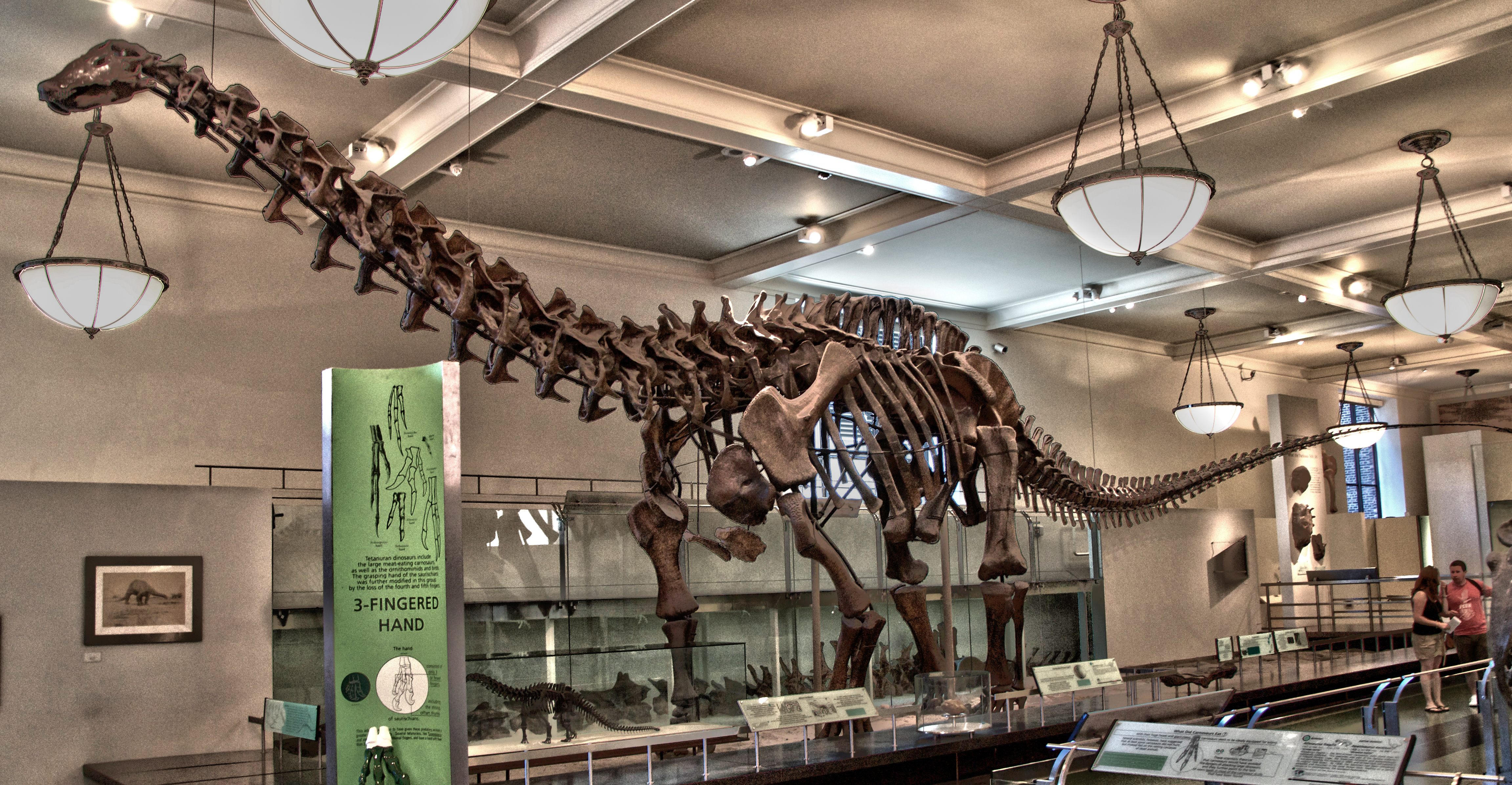 Apatosaurus skeletal mount at the American Museum of Natural History, New York City